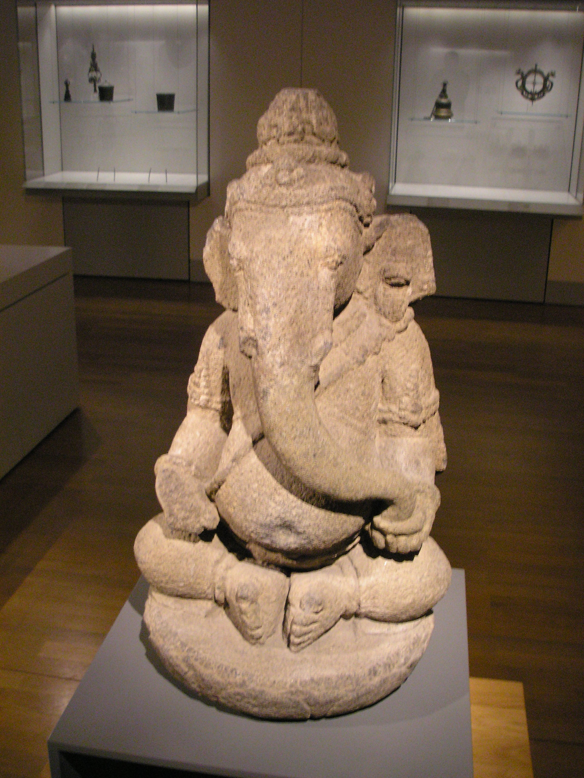 Ganeśa, eastern Java, Kediri, 11th century CE, volcanic stone, 58 x 32 cm. Located in the Museum für Indische Kunst, Berlin-Dahlem.